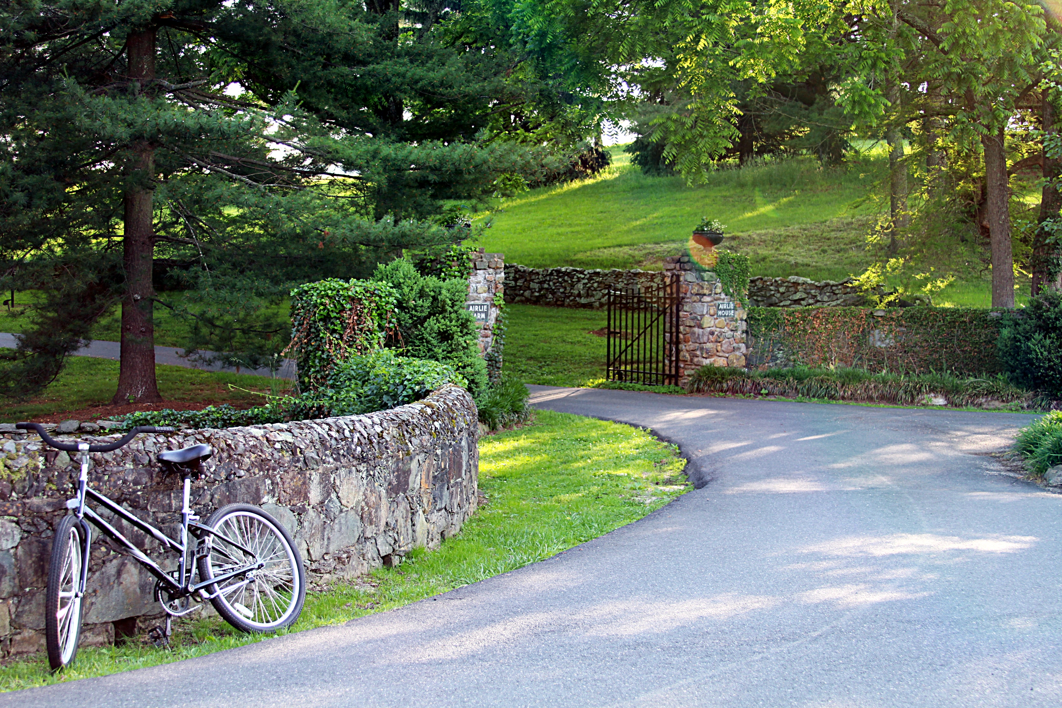 Photograph of the roadside entrance to Airlie Conference Center in Airlie, Virginia.